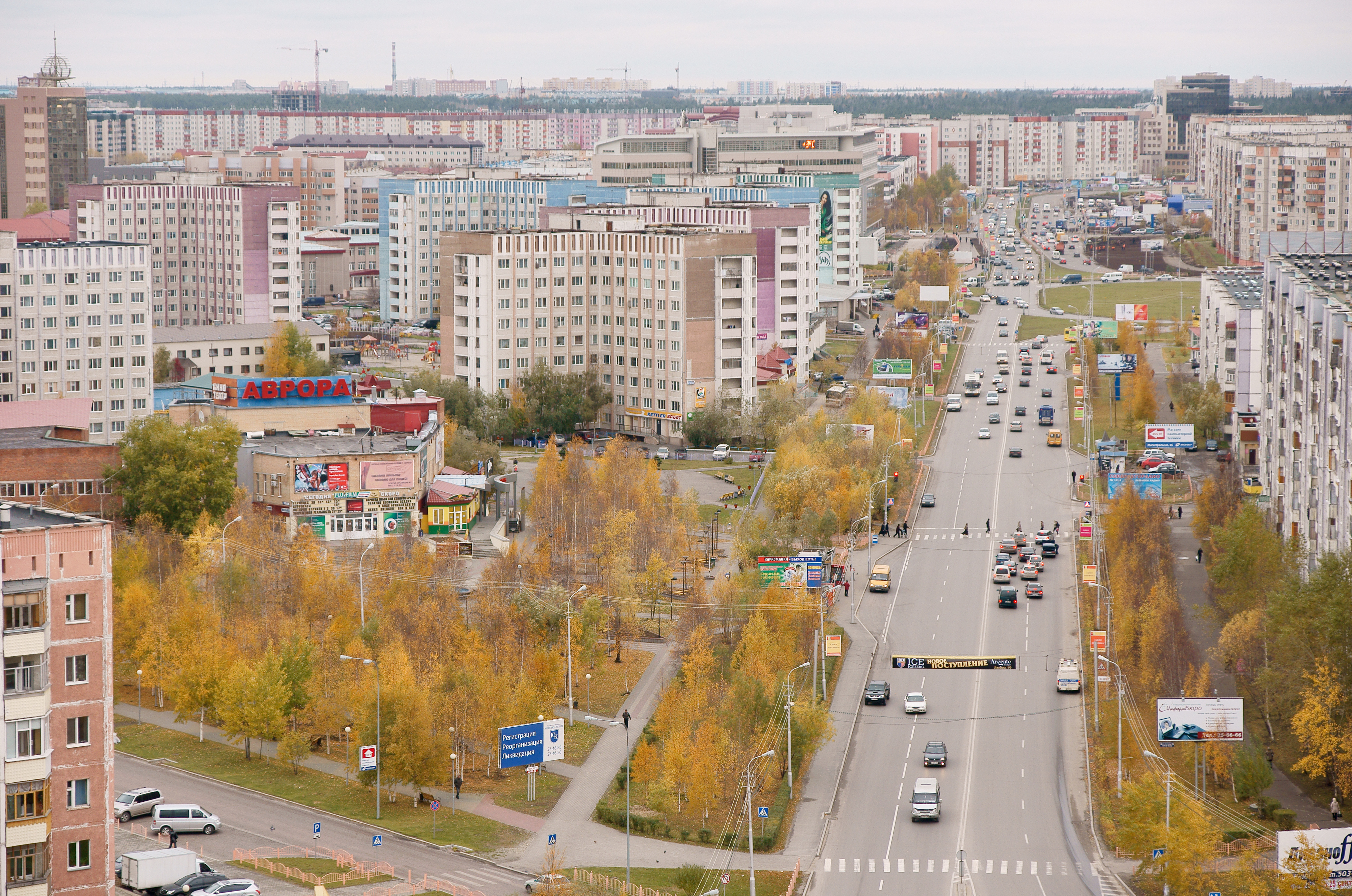 Lenin st., Surgut, Russia.